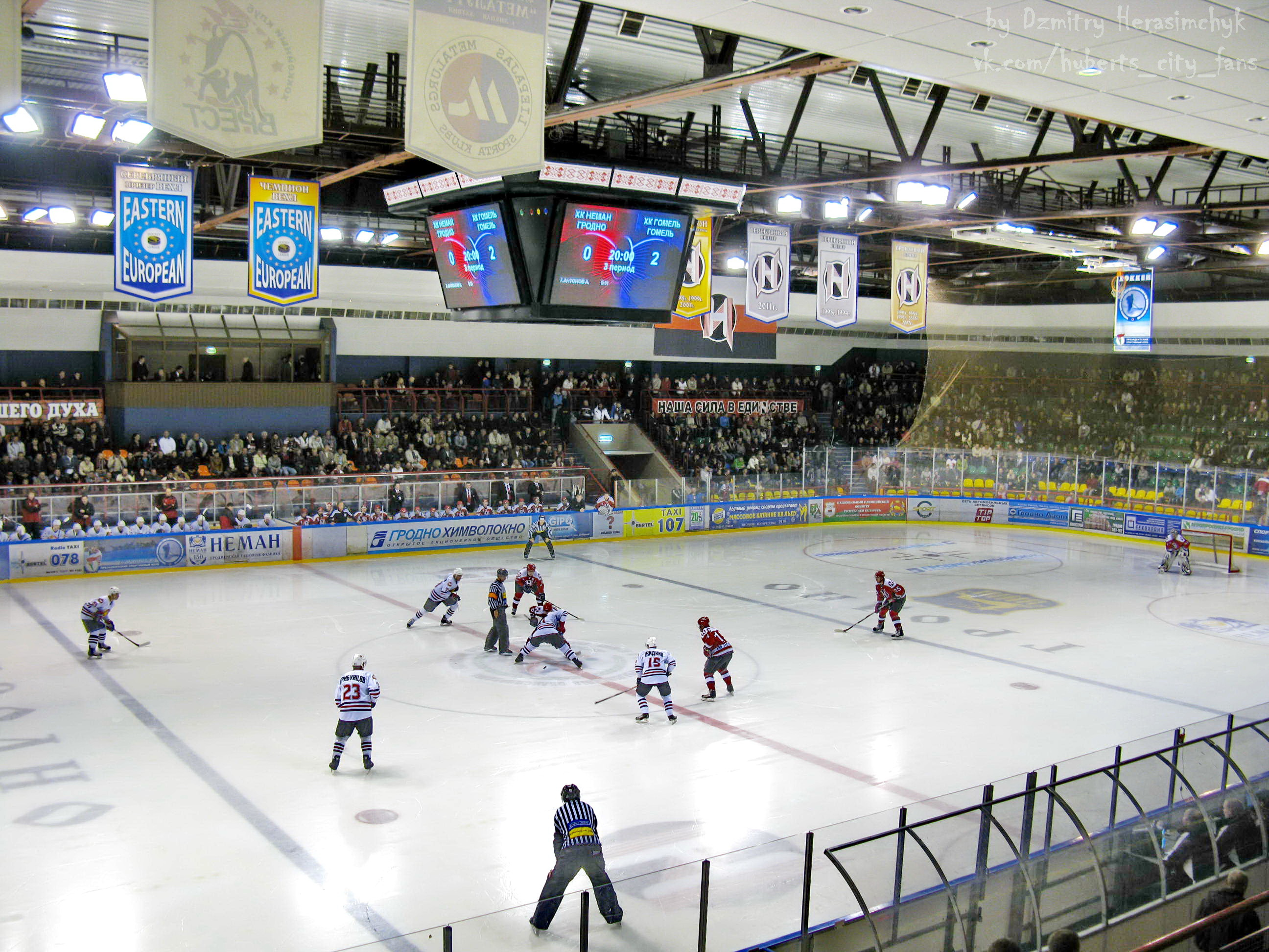 In the Grodno Ice Sports Palace during the game